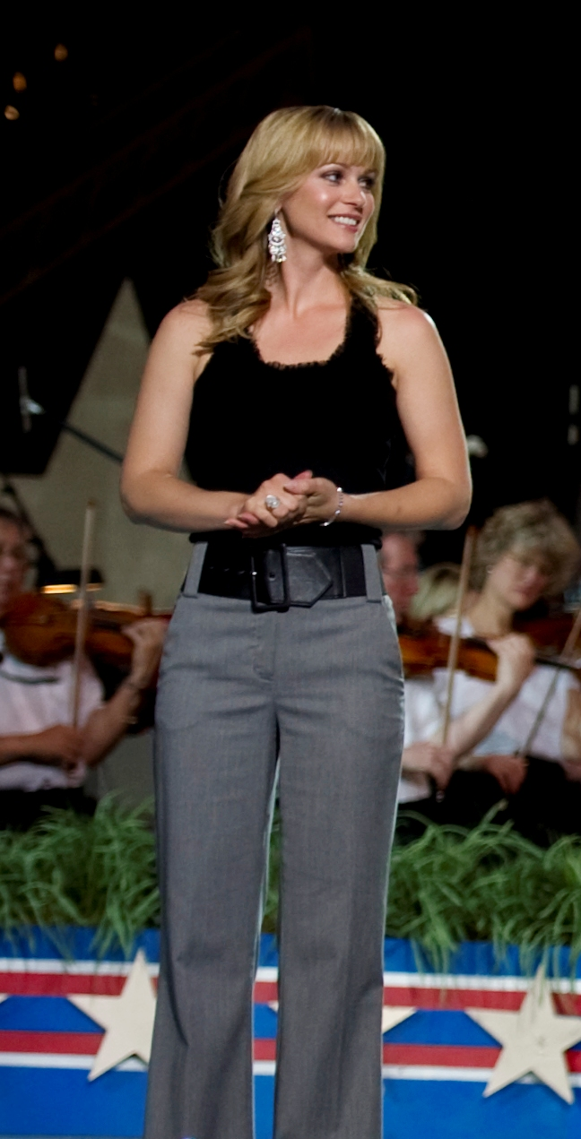 A.J. Cook thanks the audience for their participation in the National Memorial Day Concert on the West Lawn of the U.S. Capitol in Washington, D.C on May 30, 2010.